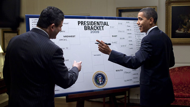 U.S. President Barack Obama picks his winners for the 2009 NCAA Men's Division I Basketball Tournament.